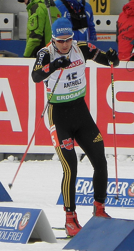 Andreas Birnbacher in Antholz, 21-01-2010